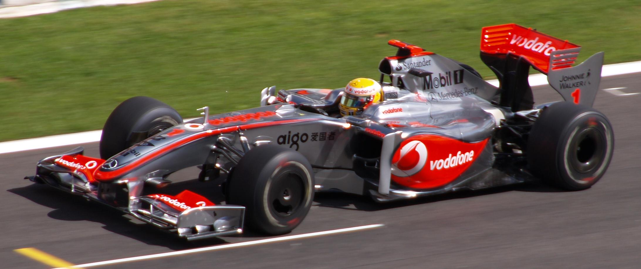 Lewis Hamilton driving for McLaren at the 2009 Belgian Grand Prix.